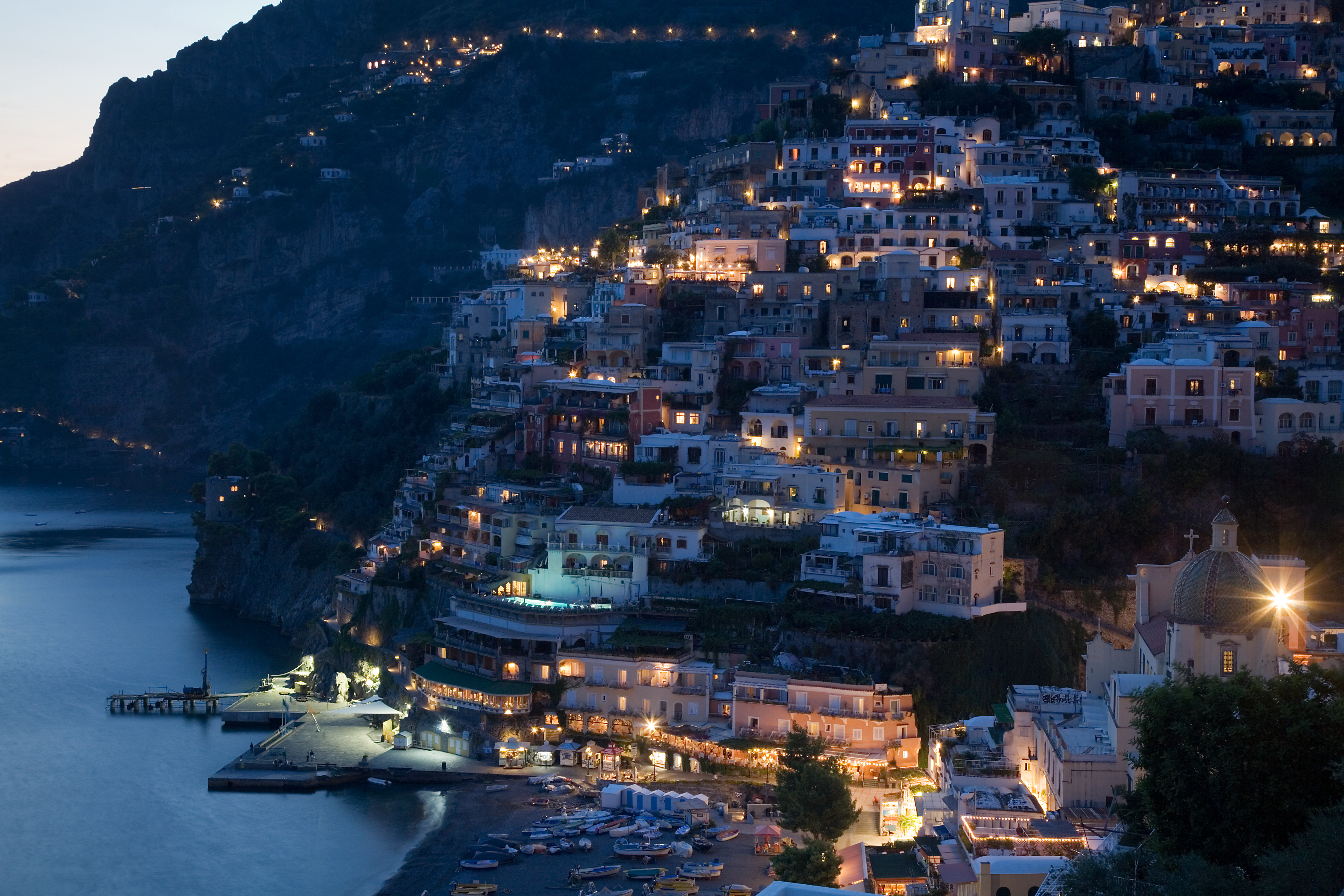 Positano, Italy